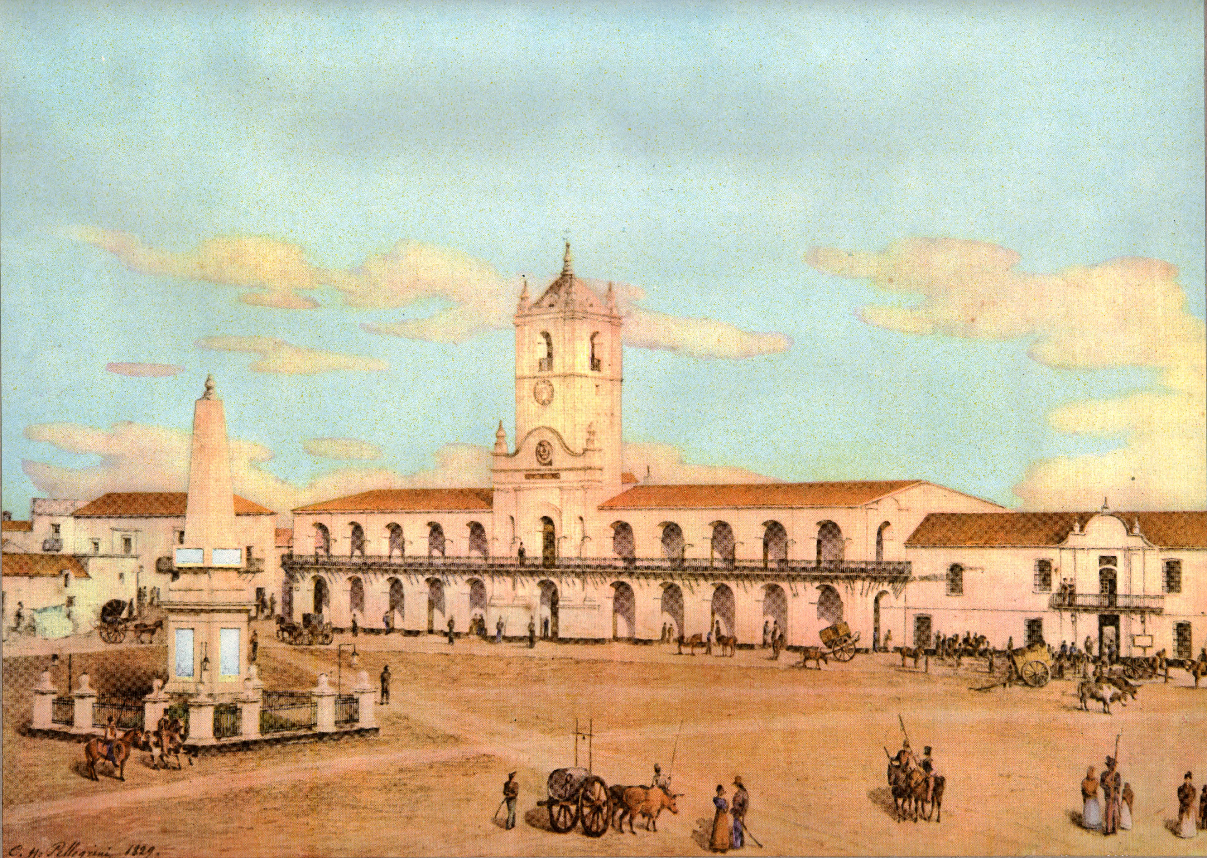 View of the North side of the Victoria Plaza of Buenos Aires. The Cabildo and the May Piramid are depicted.